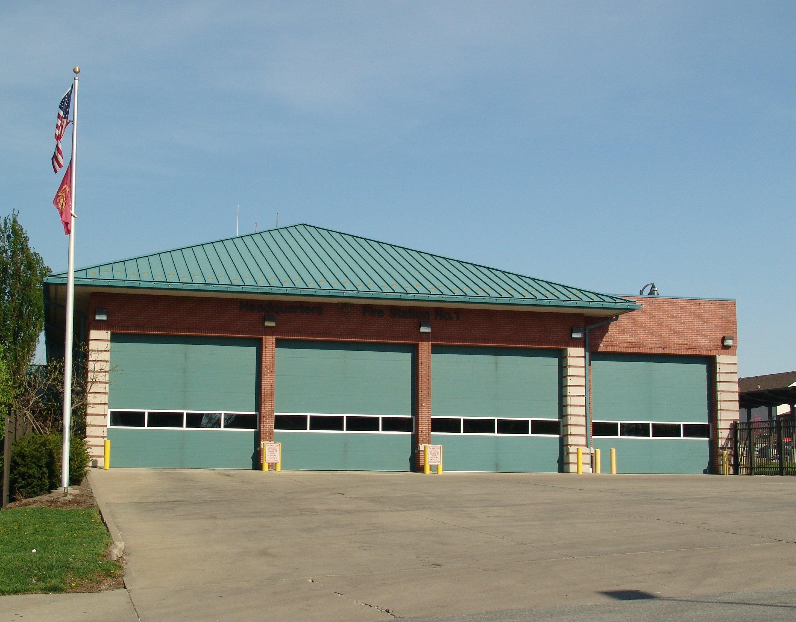 A photo of the Columbia, Missouri Fire Department Station 1.